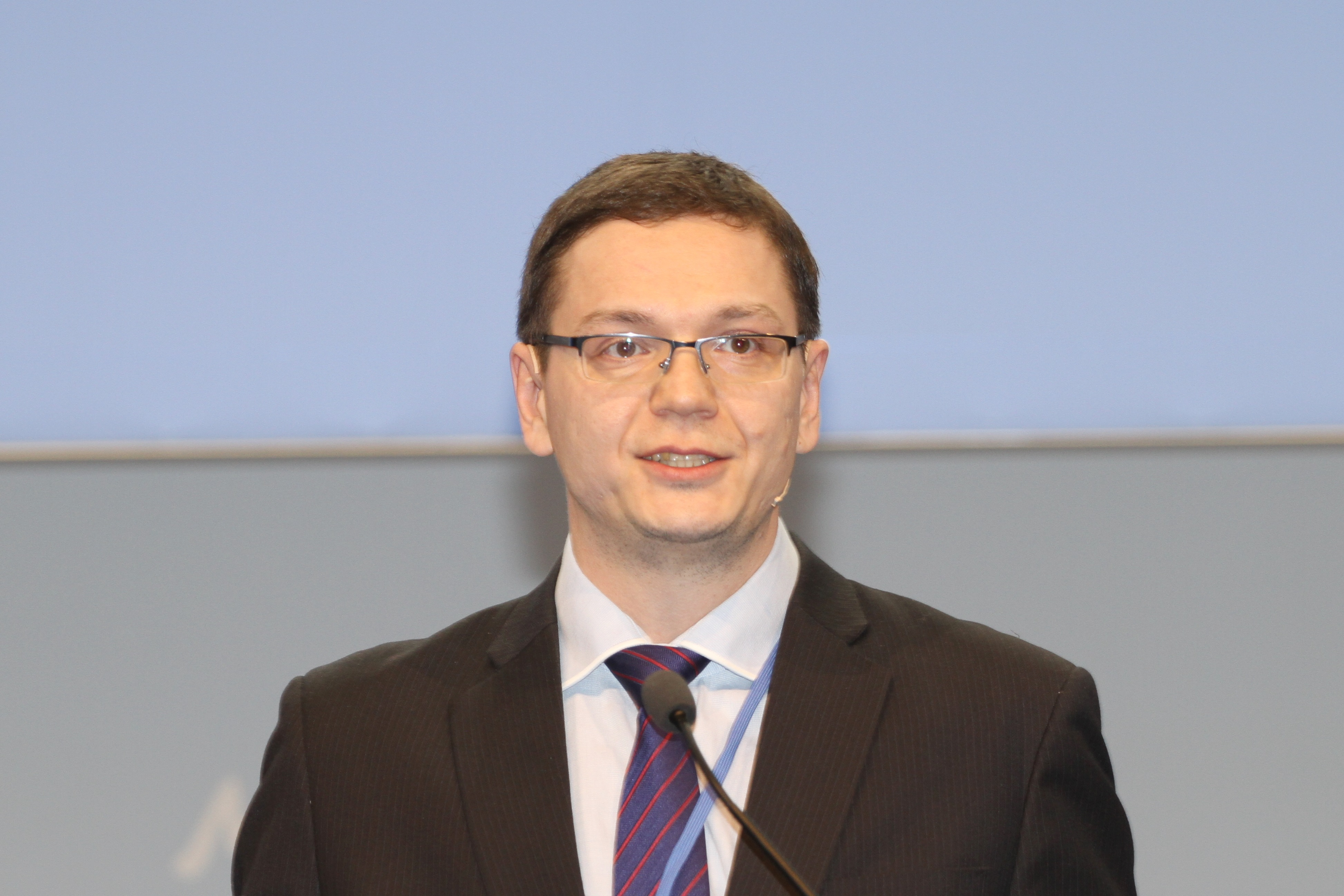 Pavel Chikov